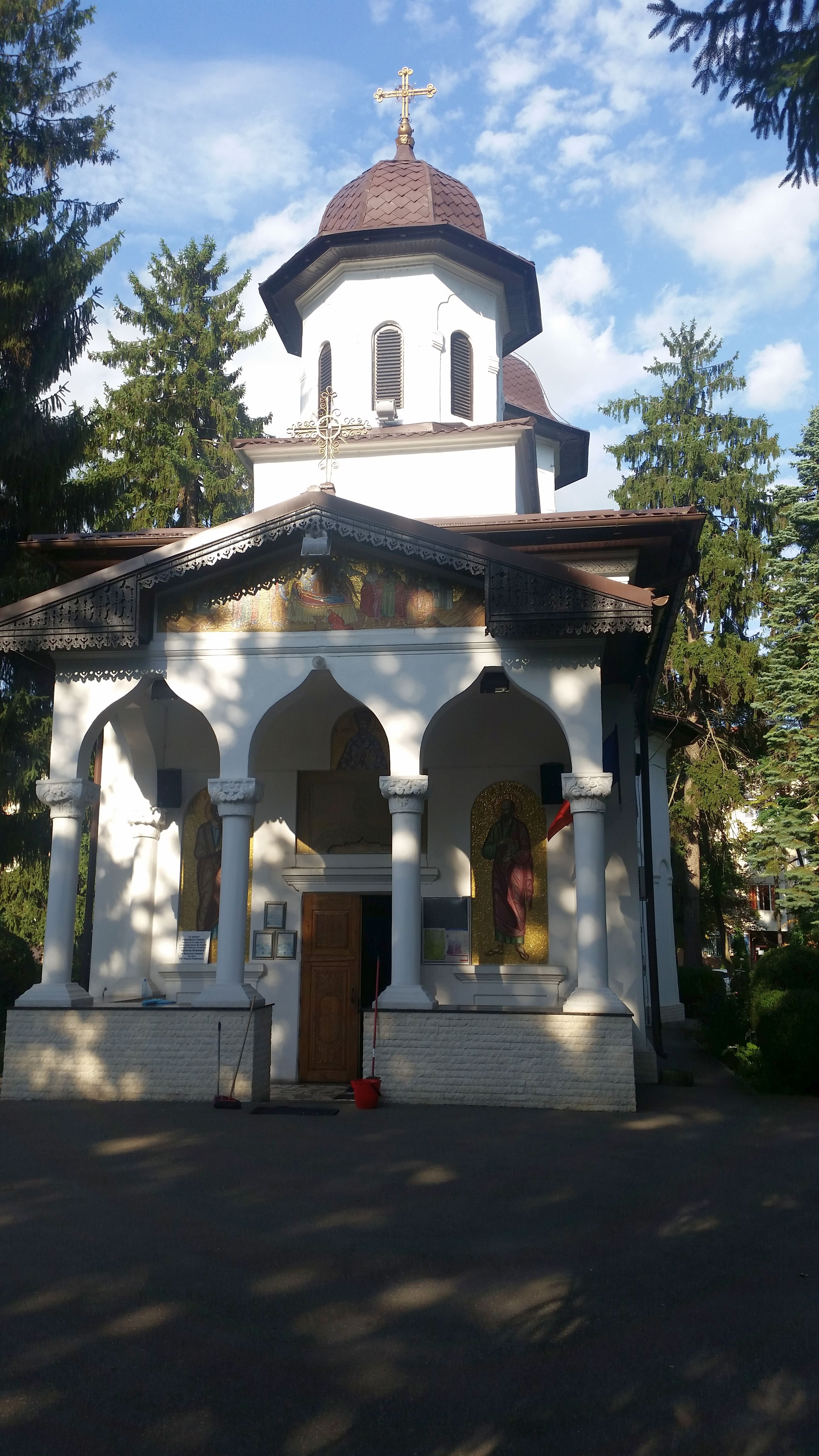 Church house of Assumption of the Holy Mother of God, heritage site in Câmpina, Romania.